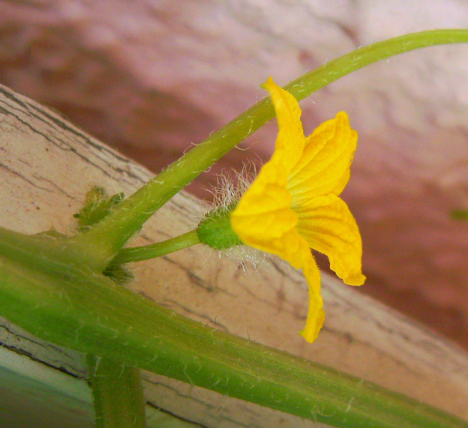 Melon male flower, cultivar Charentais, Barcelona